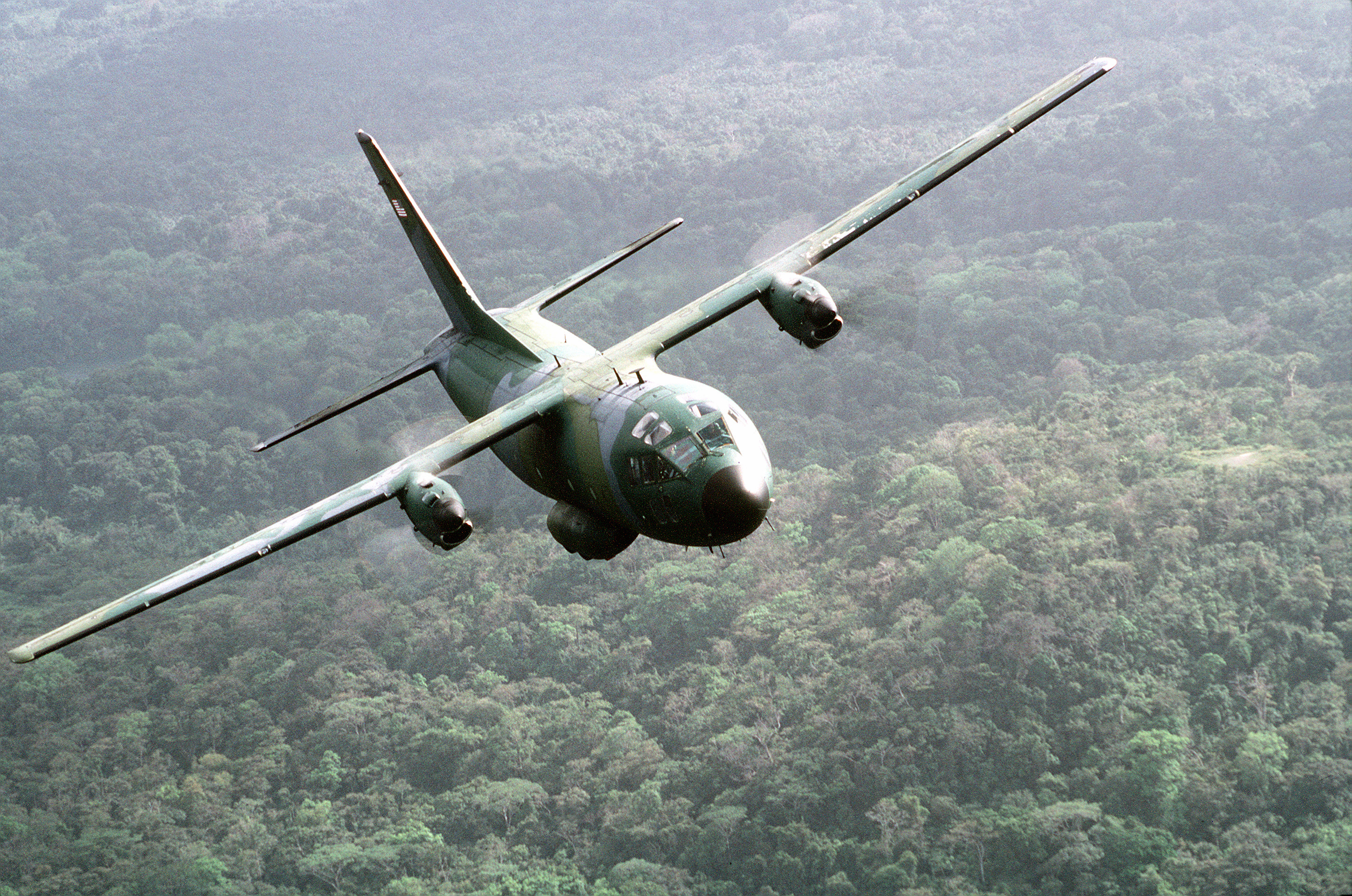 A C-27A Spartan, from the 310th Airlift Squadron, flies over the Panamanian countryside.